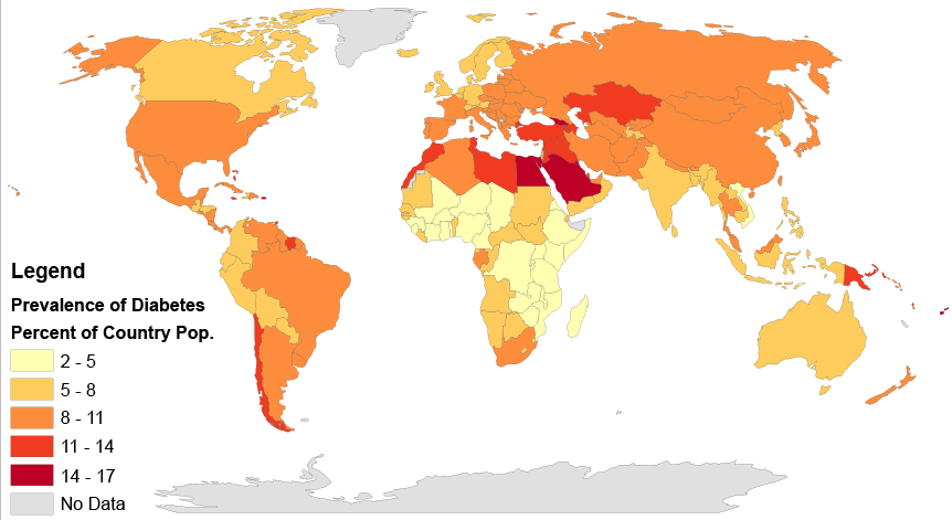 This map shows the Global Prevalence of Diabetes from 2014 utilizing data from 195 countries. The current average rate of global diabetic prevalence is 9.2% or 92 out of every 1000 people.